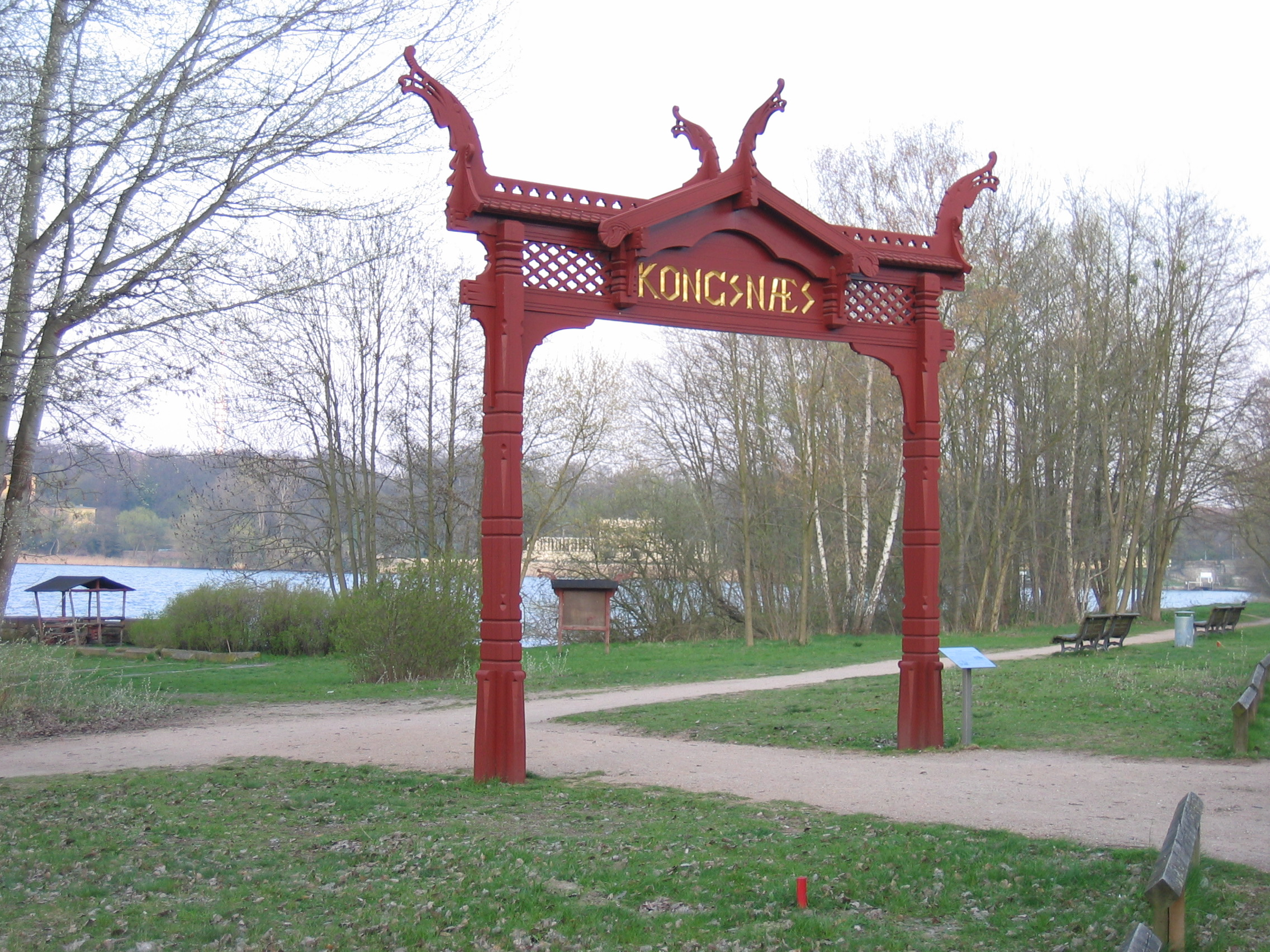 Reconstruction from 2000 of the archway of the former Matrosenstation Kongsnæs (sailors' station Kongsnæs) in Potsdam, Brandenburg, Germany